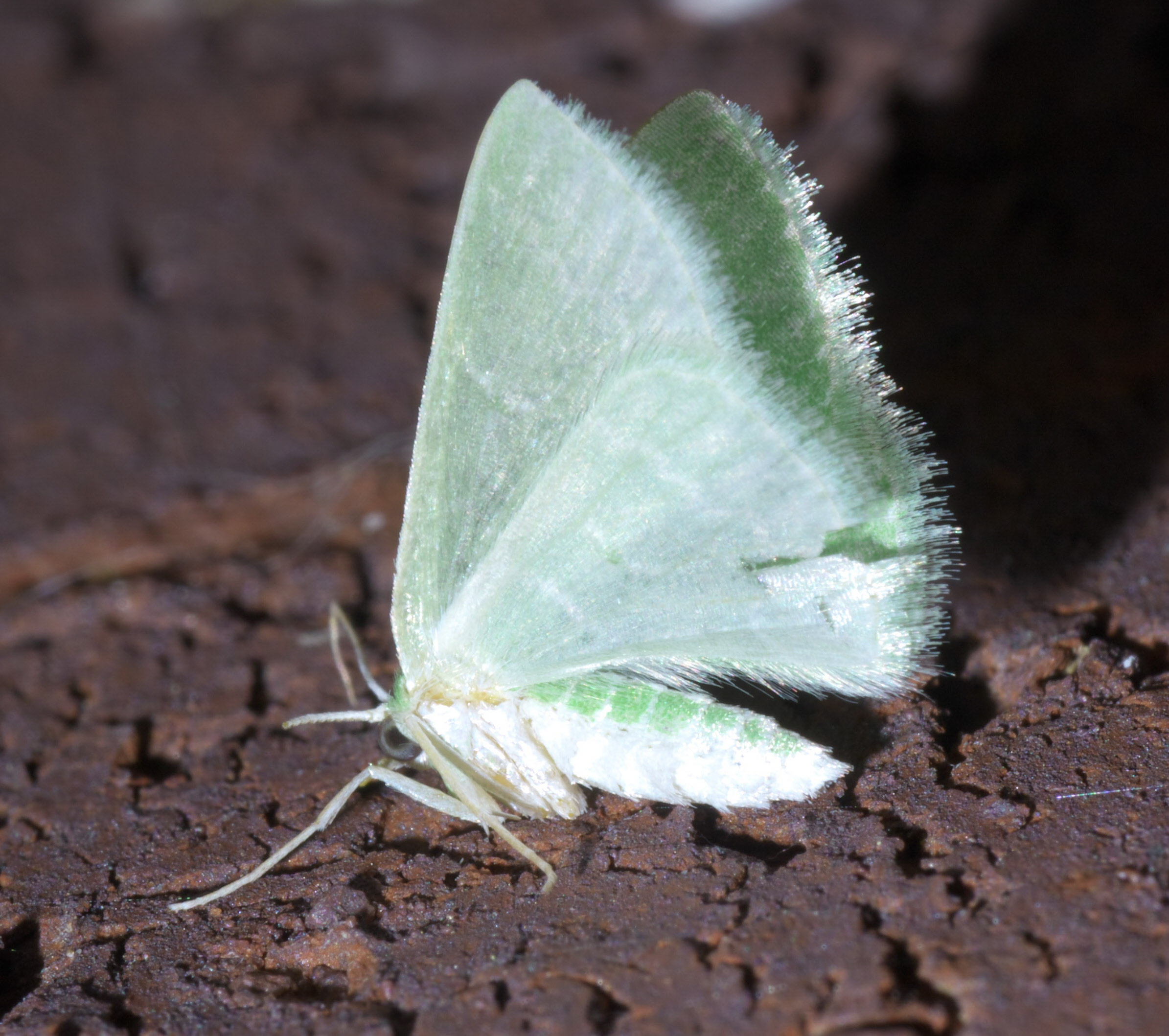 Synchlora frondaria, Southern Emerald Moth - Hodges #7059, ID Confidence: 90